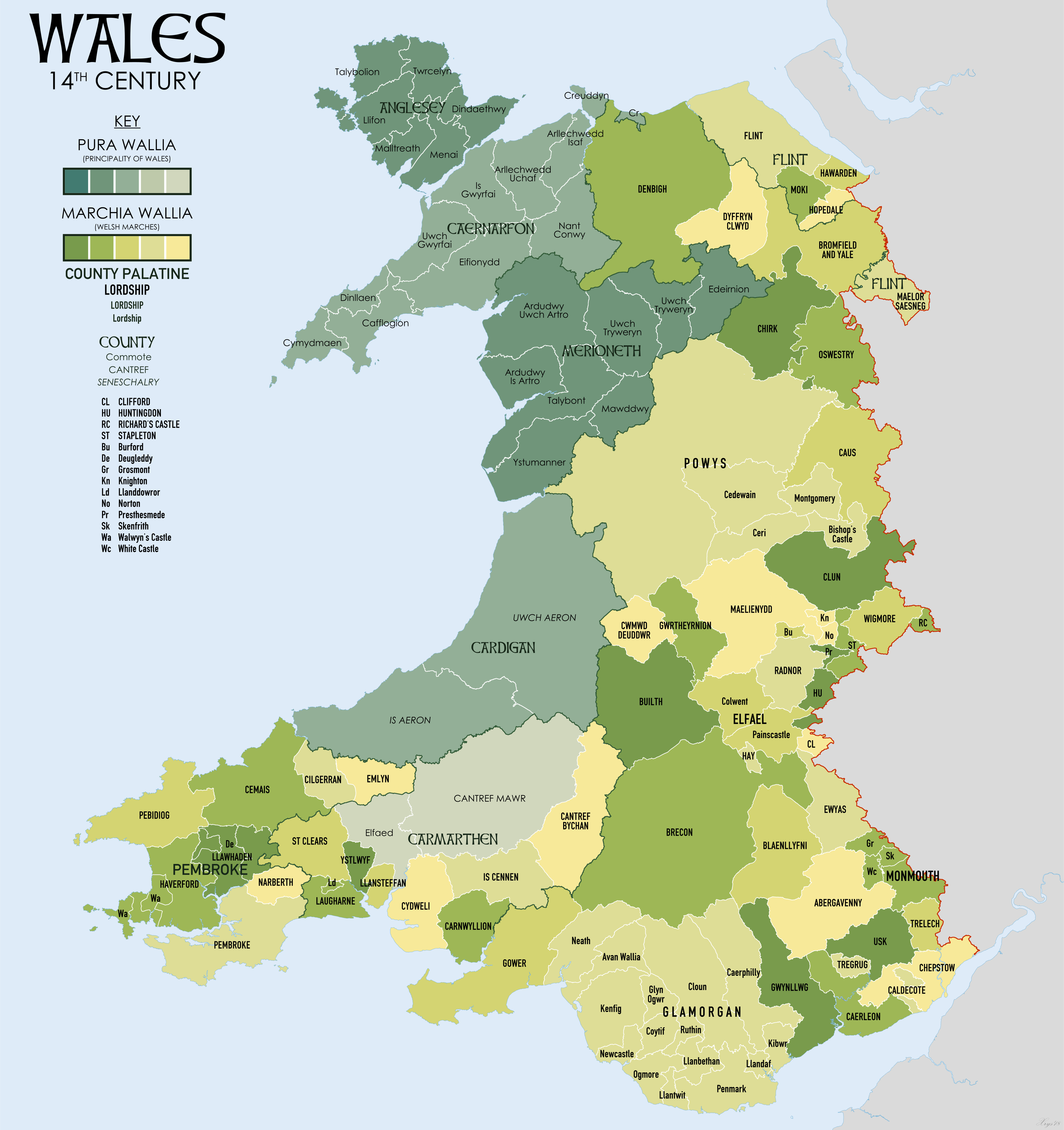 Map of Wales in the 14th Century showing The Principality and Welsh Marches. Source data: South Wales and the Border in the Fourteenth Century (1933) W.M.Rees. Max Lieberman, The March of Wales (1067-1300) (from RCAHMW Mapping the Medieval Cantrefi and Commotes of Wales ( R.J.P., and Oliver, R.R. (2001) "Historic parishes of England and Wales".